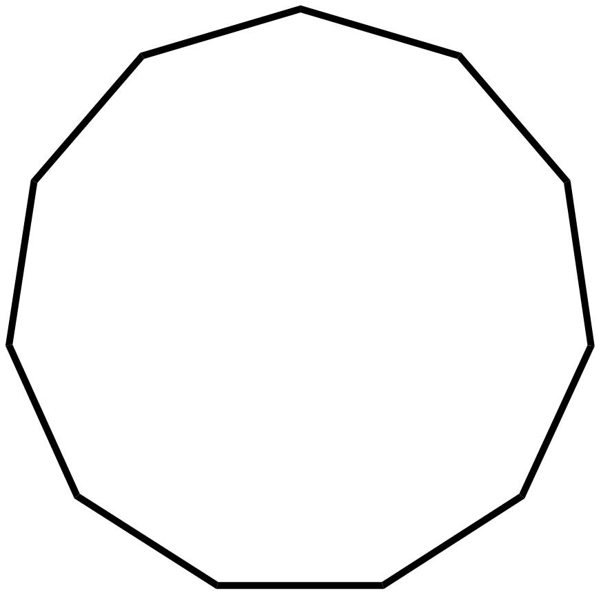 chemical structure of cycloundecane